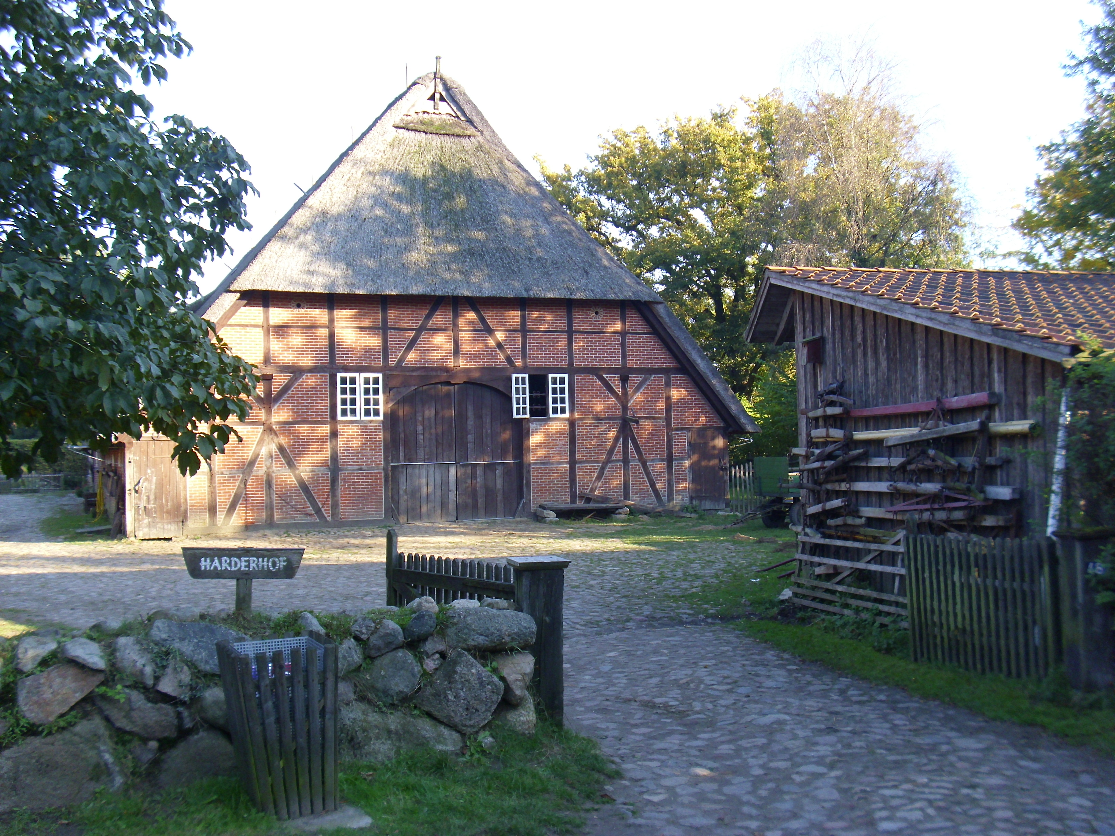 Harderhof im Museumsdorf Hamburg-Volksdorf This is a photograph of an architectural monument.